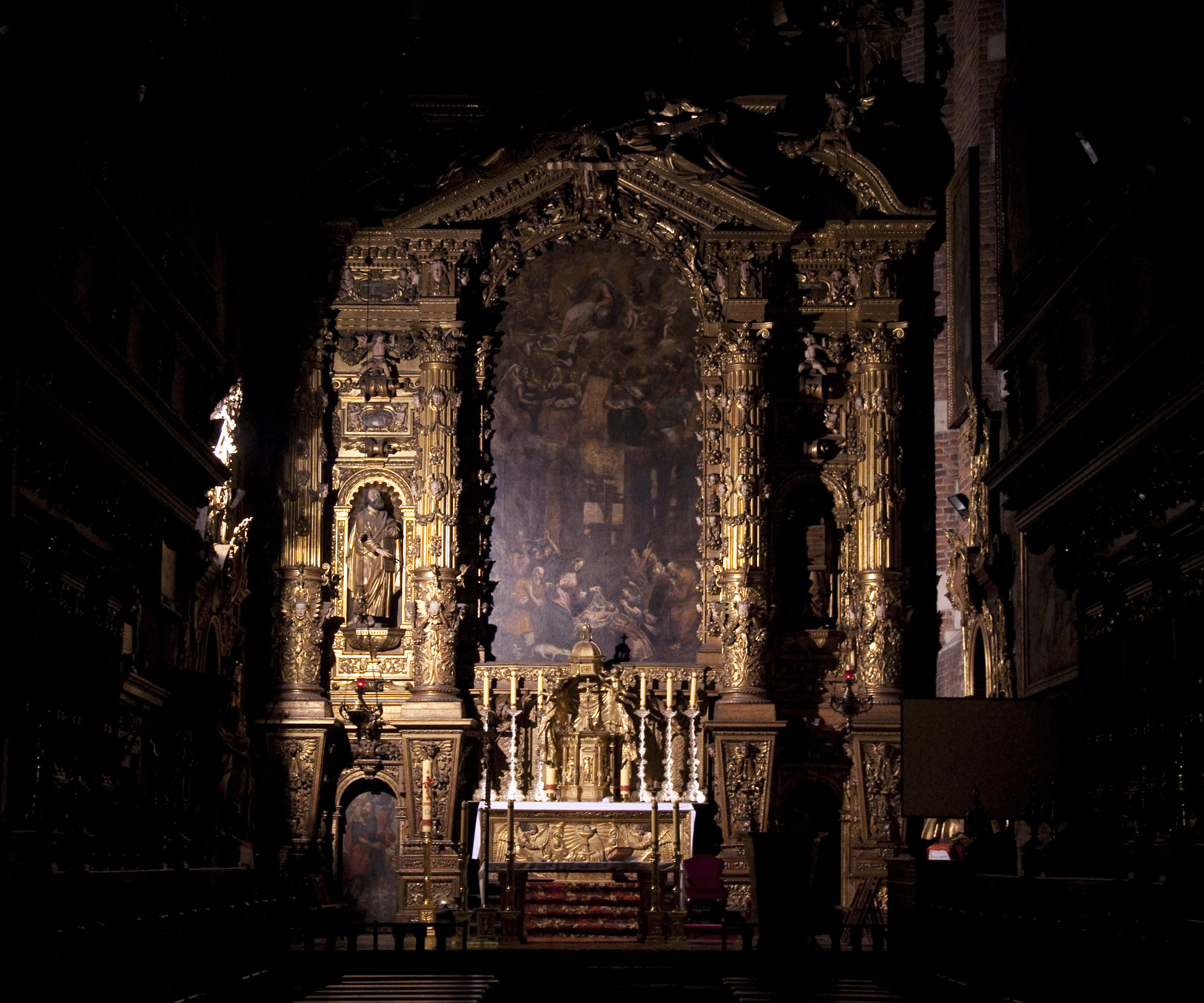 Altar of Corpus Christi church in Kraków